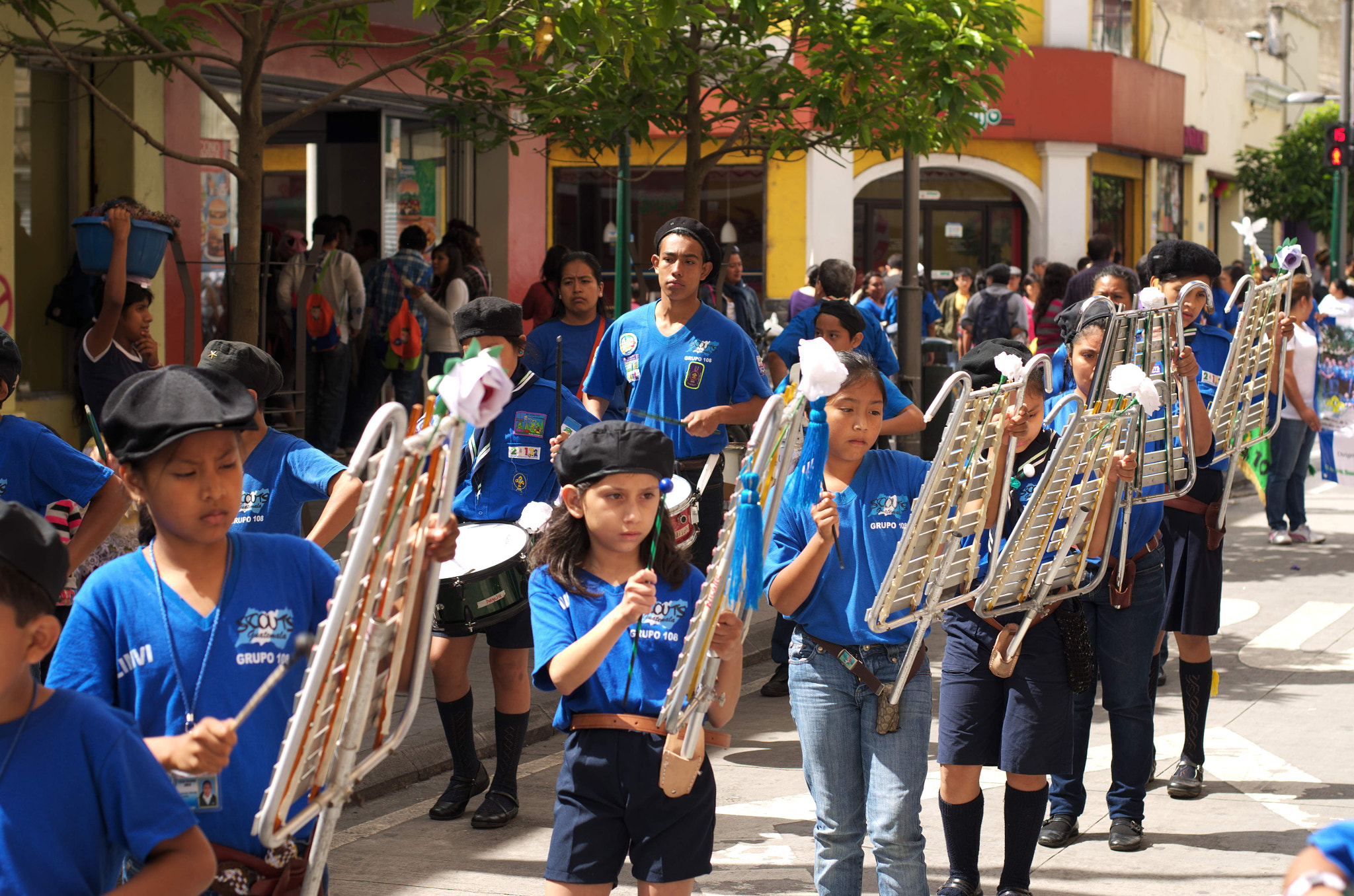 Scouts parade in Guatemala City